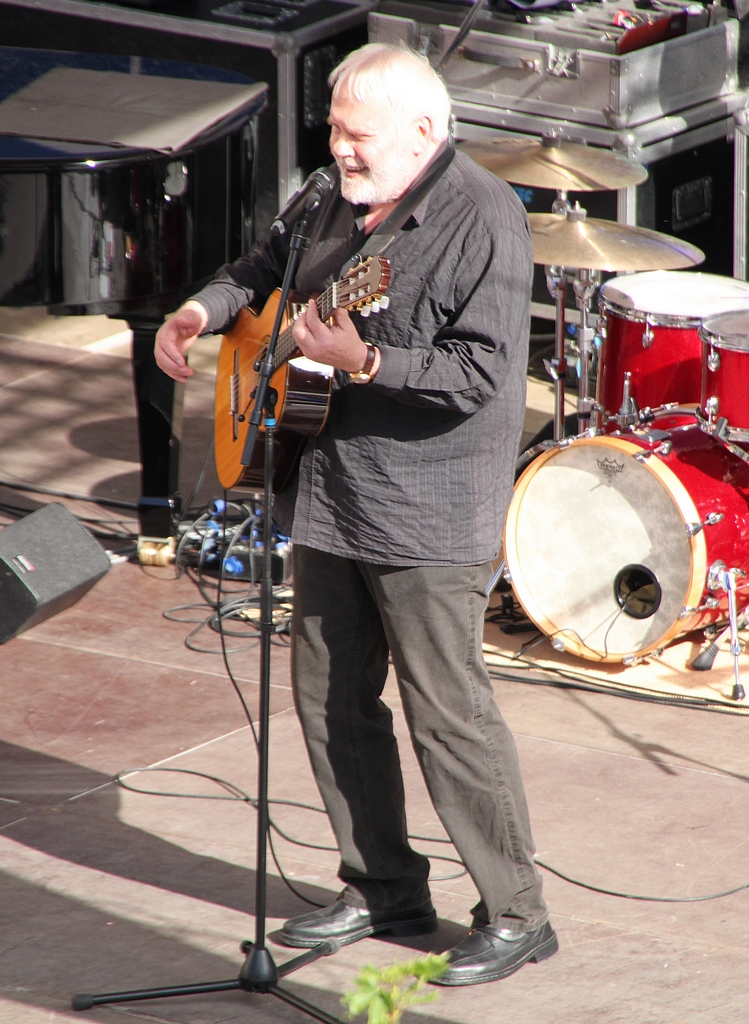 This image shows the german opera singer, Entertainer and TV personality Gunther Emmerlich during the benefit concert "Pirna taucht auf" in Pirna to raise money for the families affected by the flood of the Elbe river in june 2013.